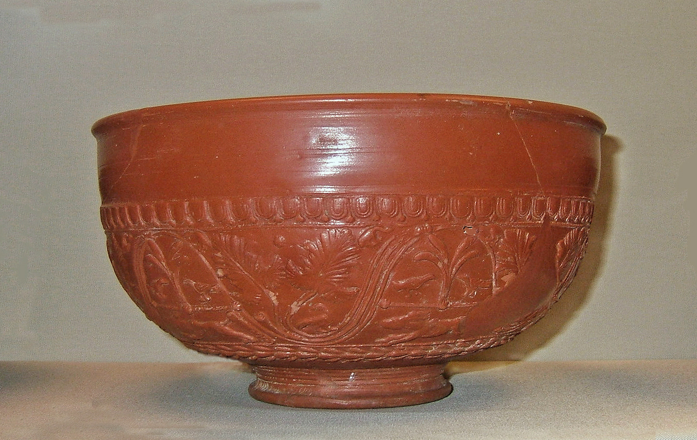 Samian ware bowl, Dragendorff 37, stamped by the South Gaulish potter Mercato. Late 1st century AD. Diam.24.4 cm. British Museum, London. PE 1931.12-11.1